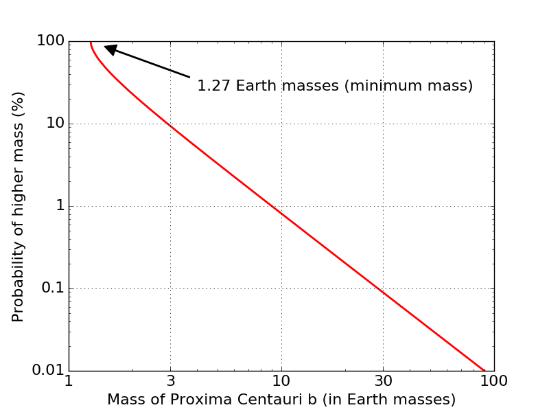 The minimum mass of Proxima Centauri b is 1.27 Earth masses, corresponding to an edge-on orbit, but the orbital inclination of the planet has not been measured. The range of possible inclinations follows a probability distribution (e.g., the median inclination is 60 degrees - not 45!). If the inclination is lower than 90 degrees (edge-on), a higher mass follows. This figure shows the relation between possible masses for the exoplanet, and the probability for the corresponding inclination. Input: binary mass function, stellar mass, and trigonometry to relate inclination to probability.